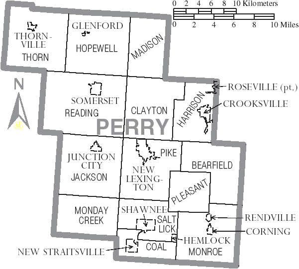 Map of Perry County, Ohio, United States with township and municipal boundaries